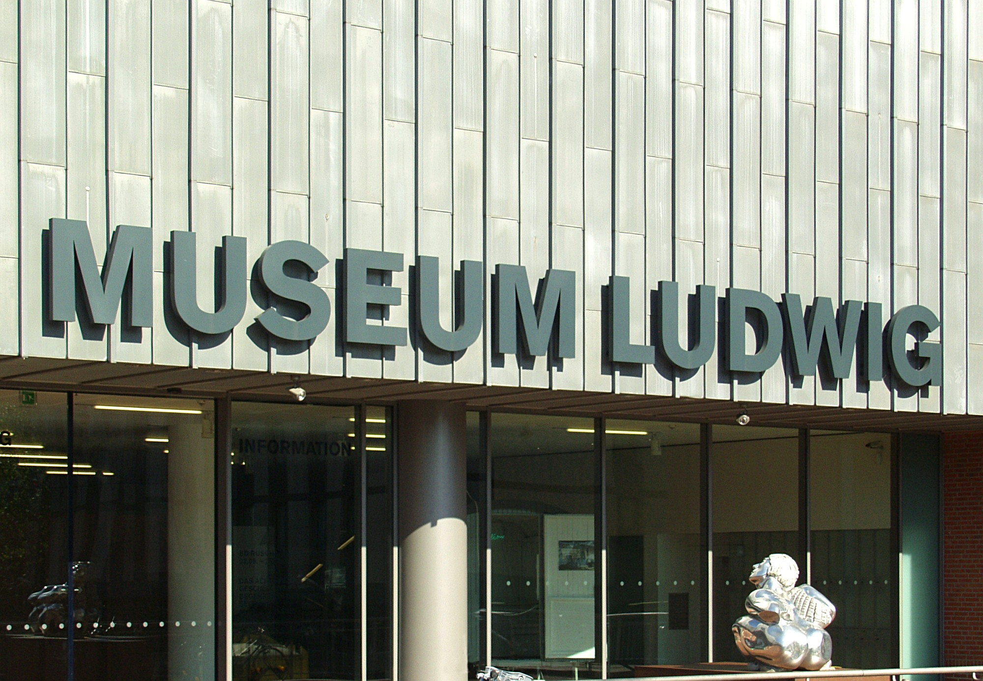 Writing over the southern entrance of the Museum Ludwig, Cologne.